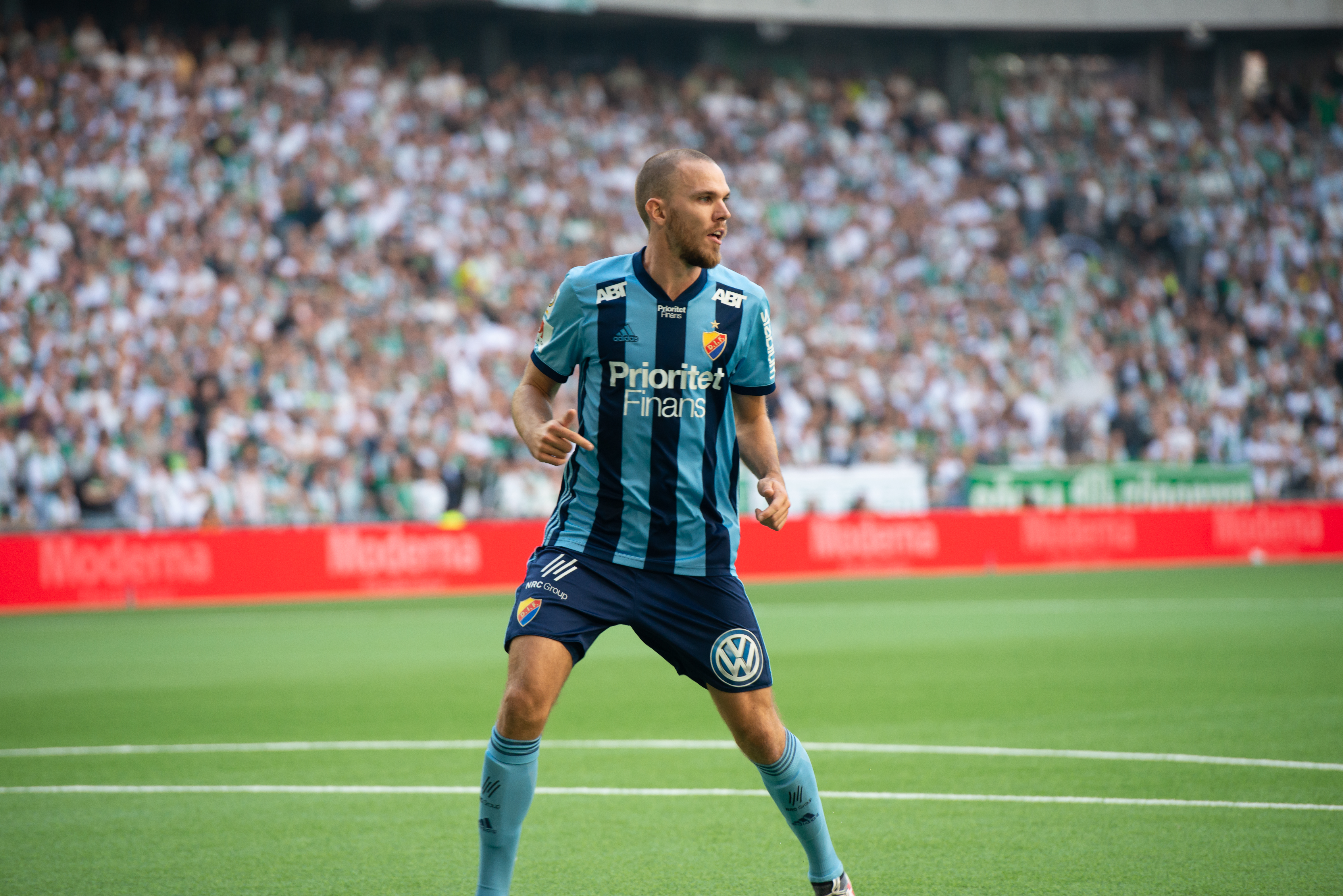 Hammarby-Djurgården 2018-09-03